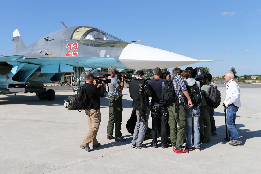 Press tour for Russian and international media representatives at the Russian airbase in Latakia, Syria